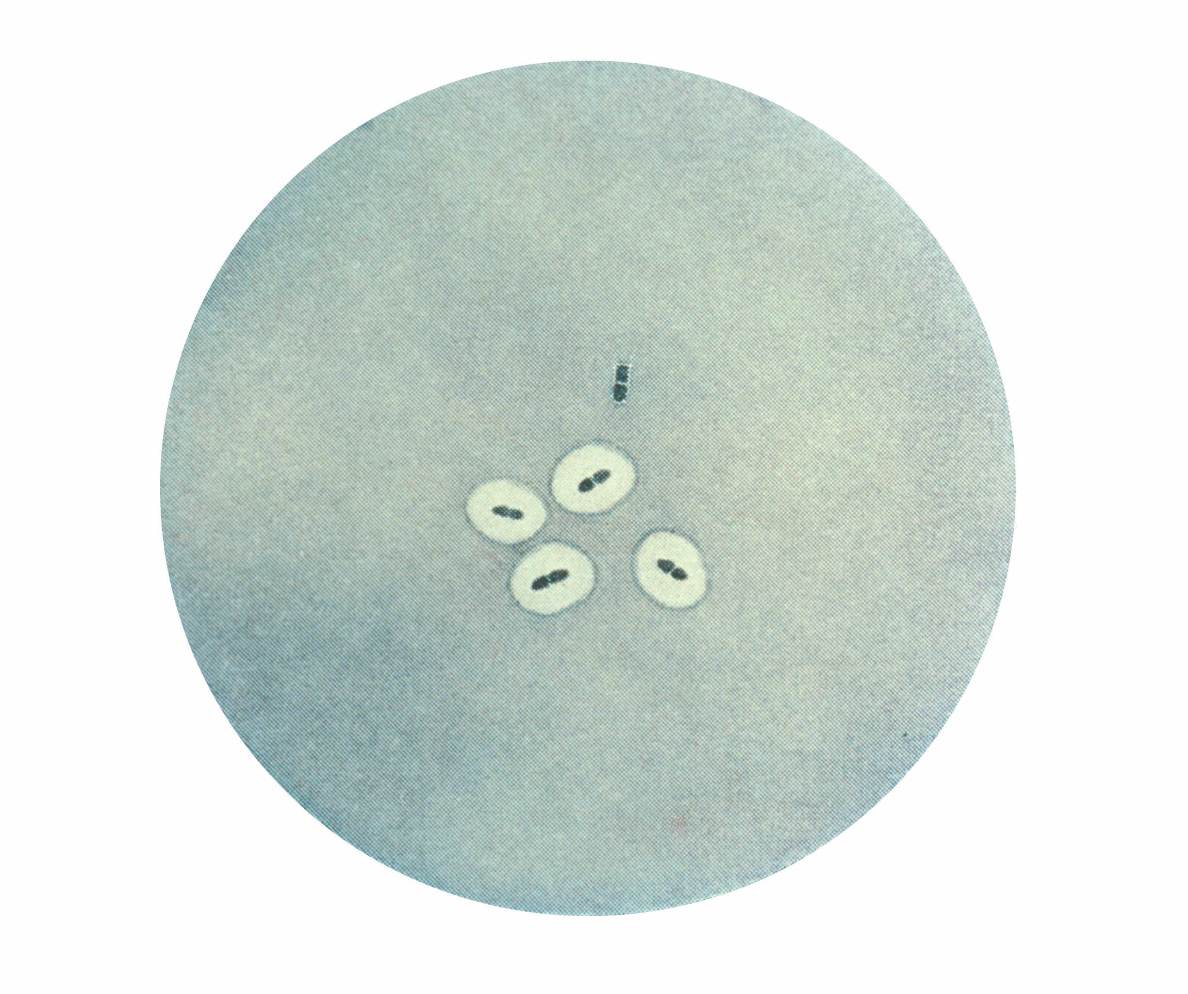 Photomicrograph of Streptococcus pneumoniae bacteria revealing capsular swelling using the Neufeld-Quellung test. This organism causes respiratory infections such as pneumonia and sinusitis, as well as bacteremia, otitis media, meningitis, peritonitis and arthritis. The Neufeld-Quellung test is used in pneumococcus typing. Streptococci